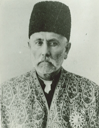 Najaf Qoli Khan "Samsam Saltaneh", Prime minister of Persia (Iran)